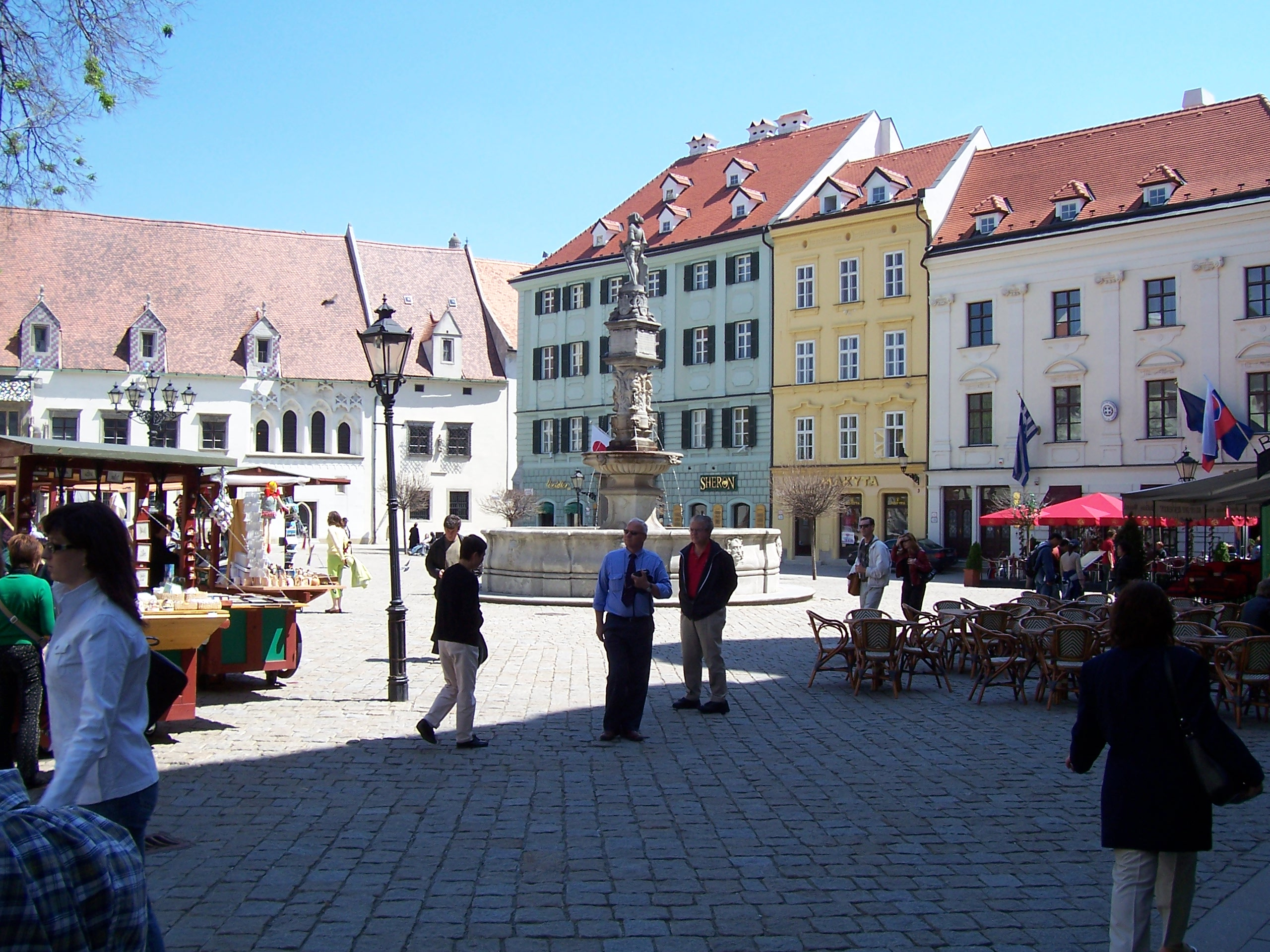 View of an old square in the center of Bratislava.